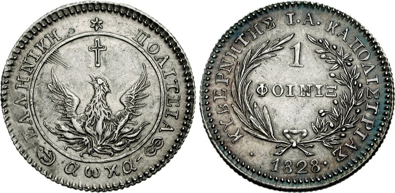 A silver coin of 1 Phoenix. The Phoenix was the first currency of the modern greek state, 1828